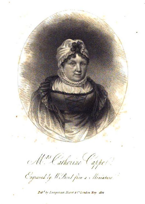 Portrait of Catherine Cappe formerly Catherine Harrison (1744–1821), British writer, diarist and philanthropist.